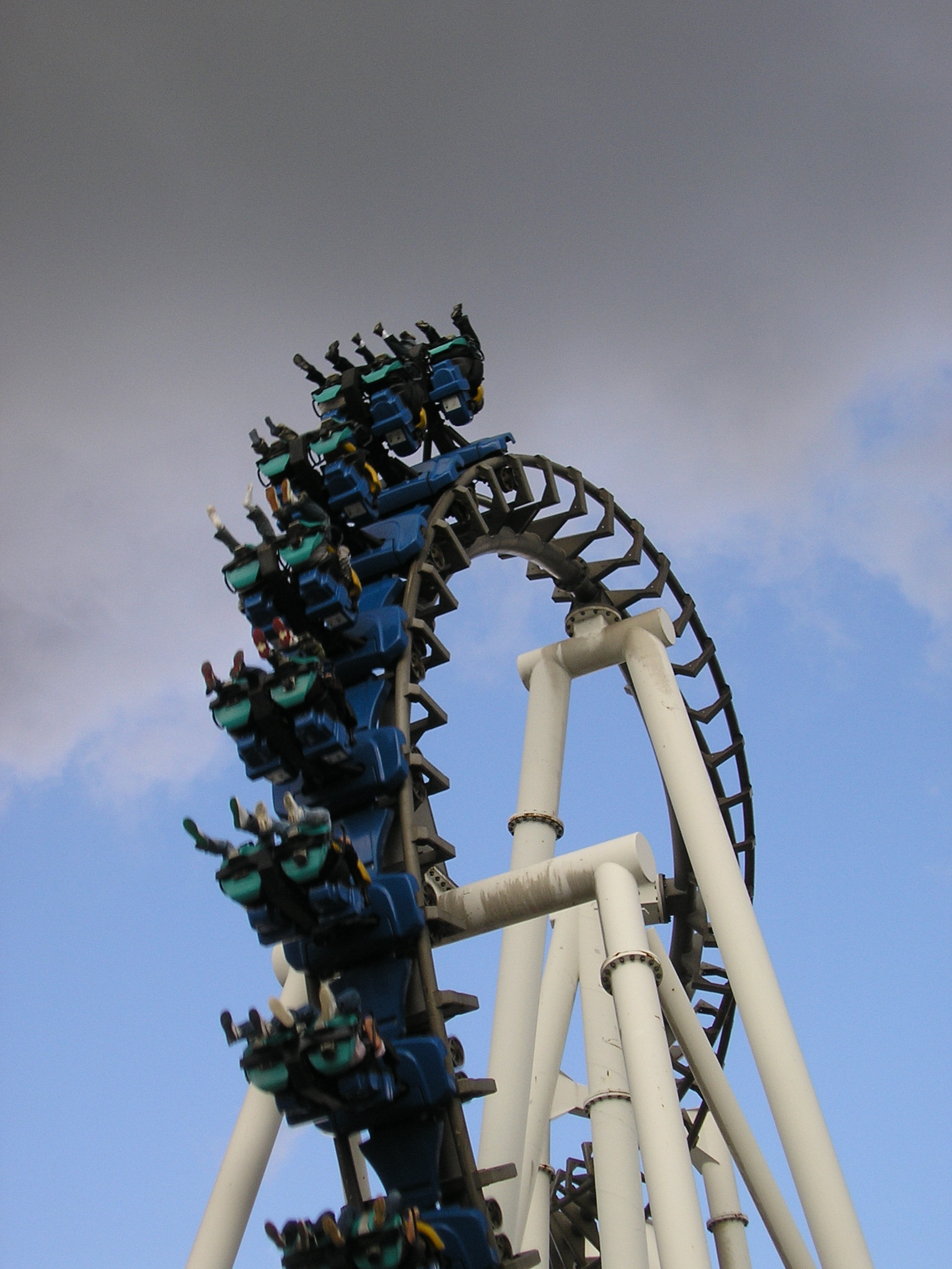 MP-Express, an attraction in Movie Park Germany